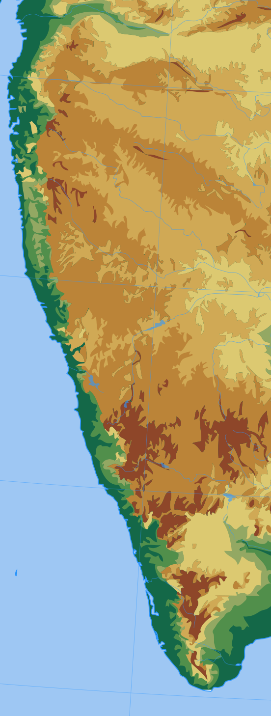 Crop of the Western Ghats